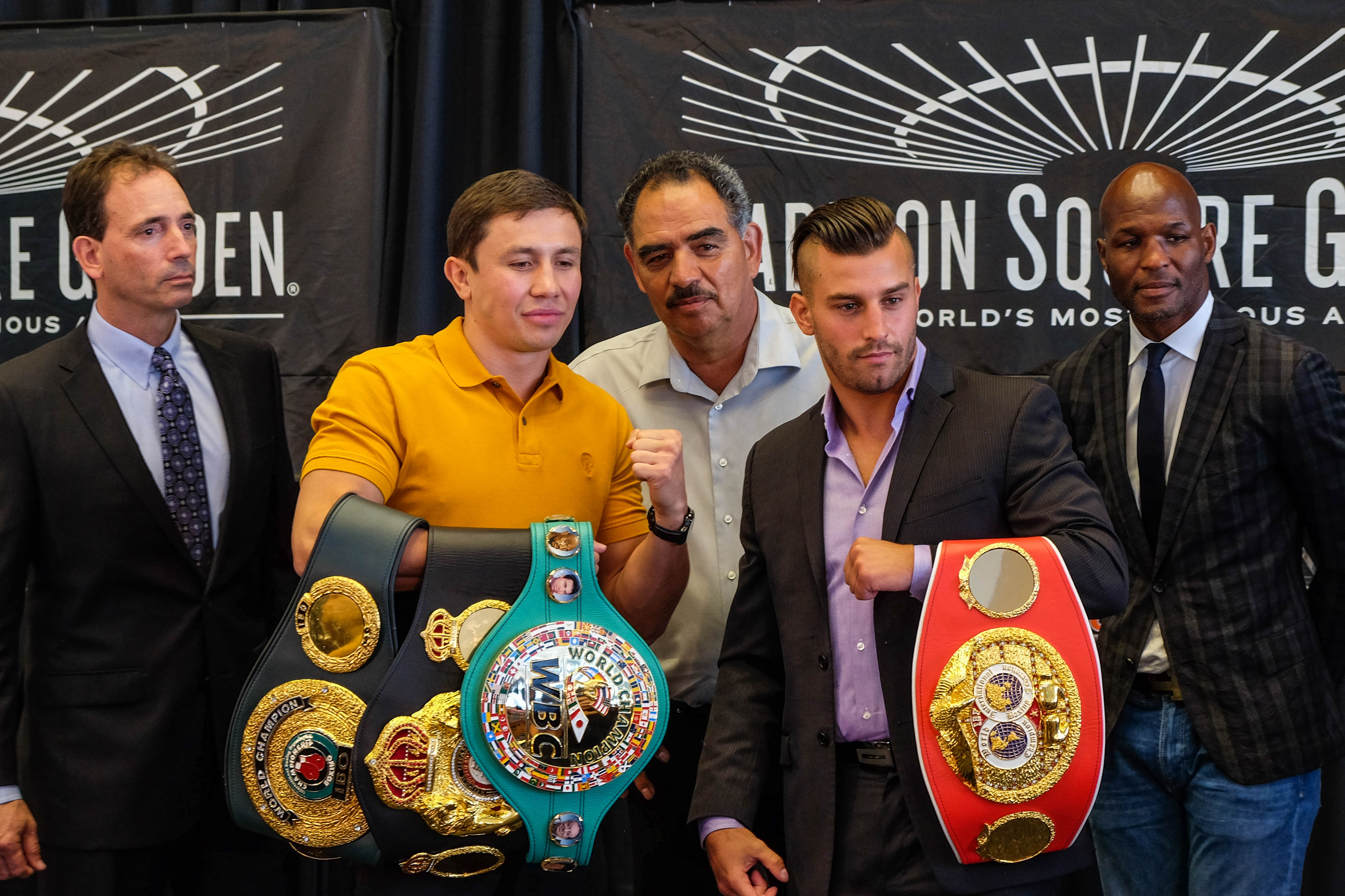 A photocall during the Golovkin-Lemieux press conference. L-R: Tom Loeffler, Gennady Golovkin, Abel Sanchez, David Lemieux, Bernard Hopkins